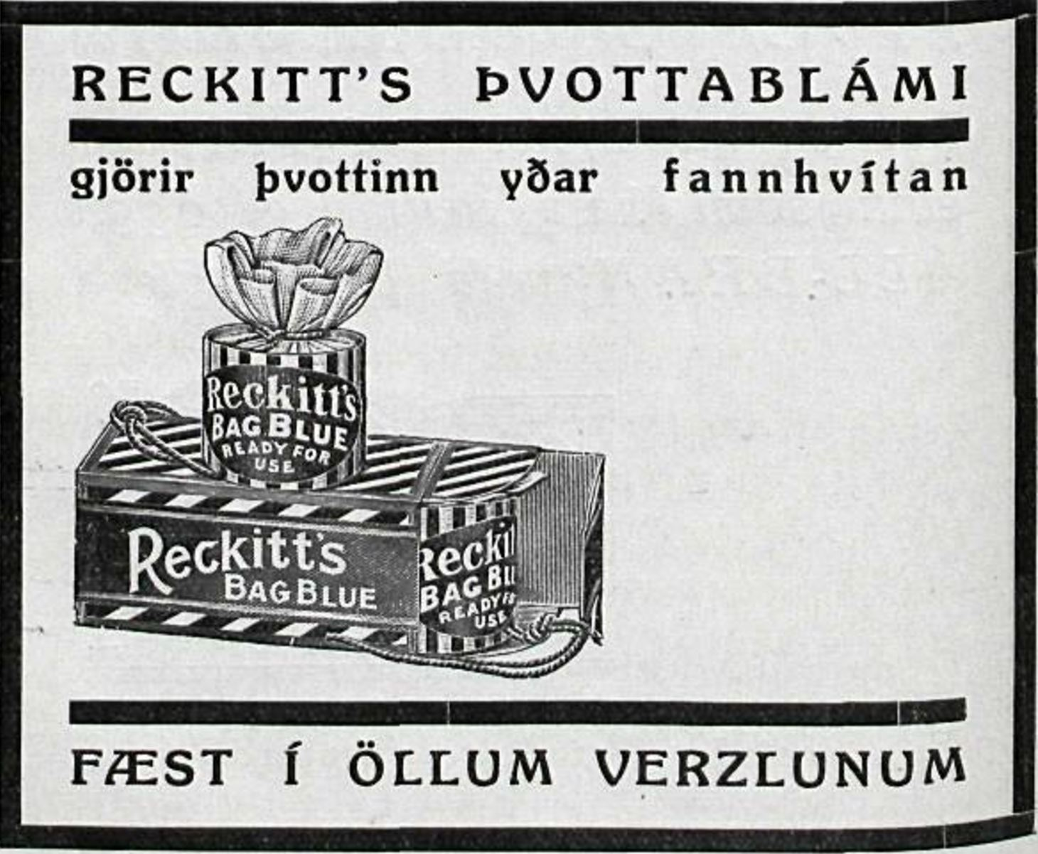 Advertisement in Icelandic magazine 1933 advertising "Þvottablámi" (blue laundry color)